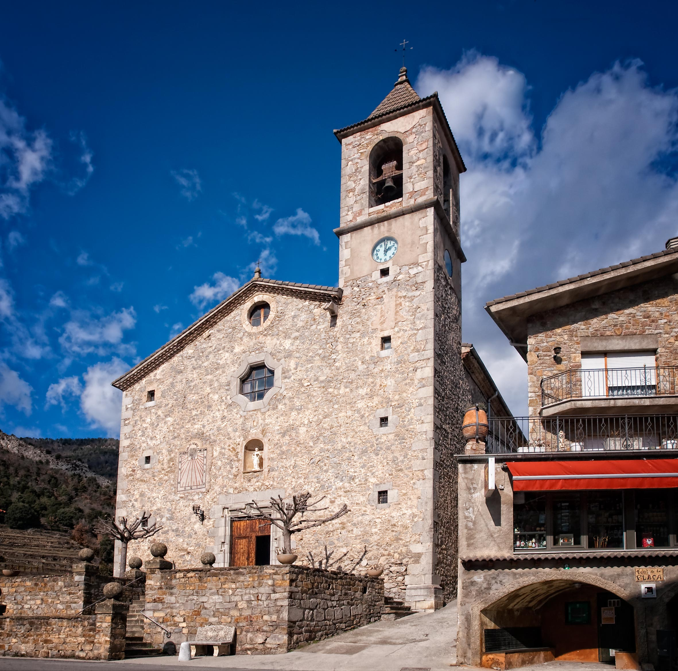 Gombren Church (Catalonia, Spain)